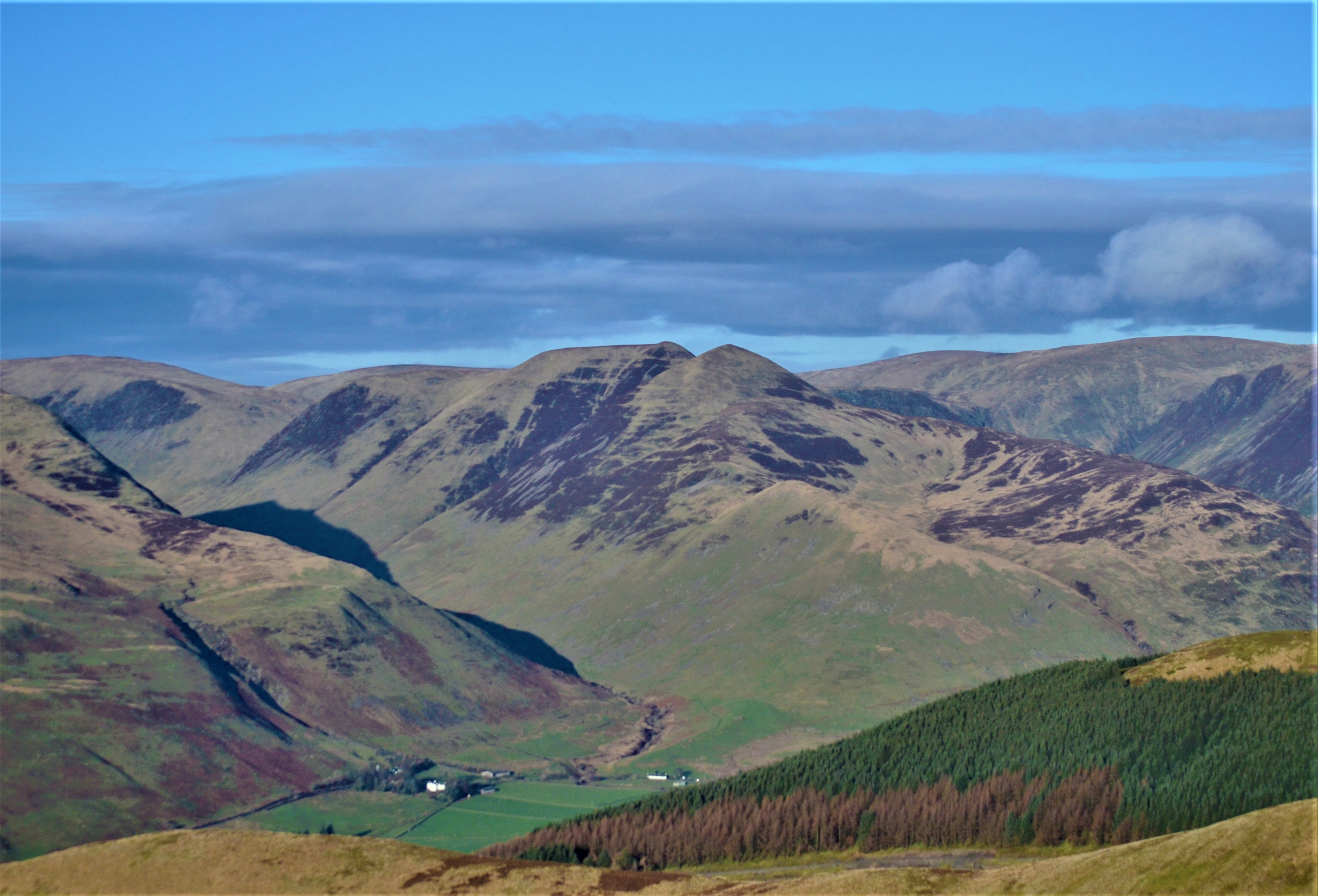 Saddle Yoke and Under Saddle Yoke from the most westerly portion of the Ettrick Hills on the Southern Upland Way, near the Cornal Burn. Hang Gill is the steep cleuch beside Capplegill Farm, Hartfell Rig and Cape Law are at the far end of Blackhope and Firthope Rig is the ridge at the far end of Carrifran.